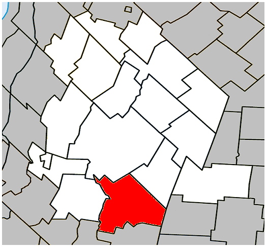 Location of Saint-Pie, Quebec within Les Maskoutains Regional County Municipality.